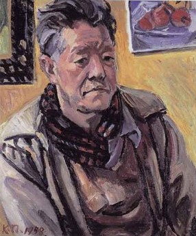 Self portrait